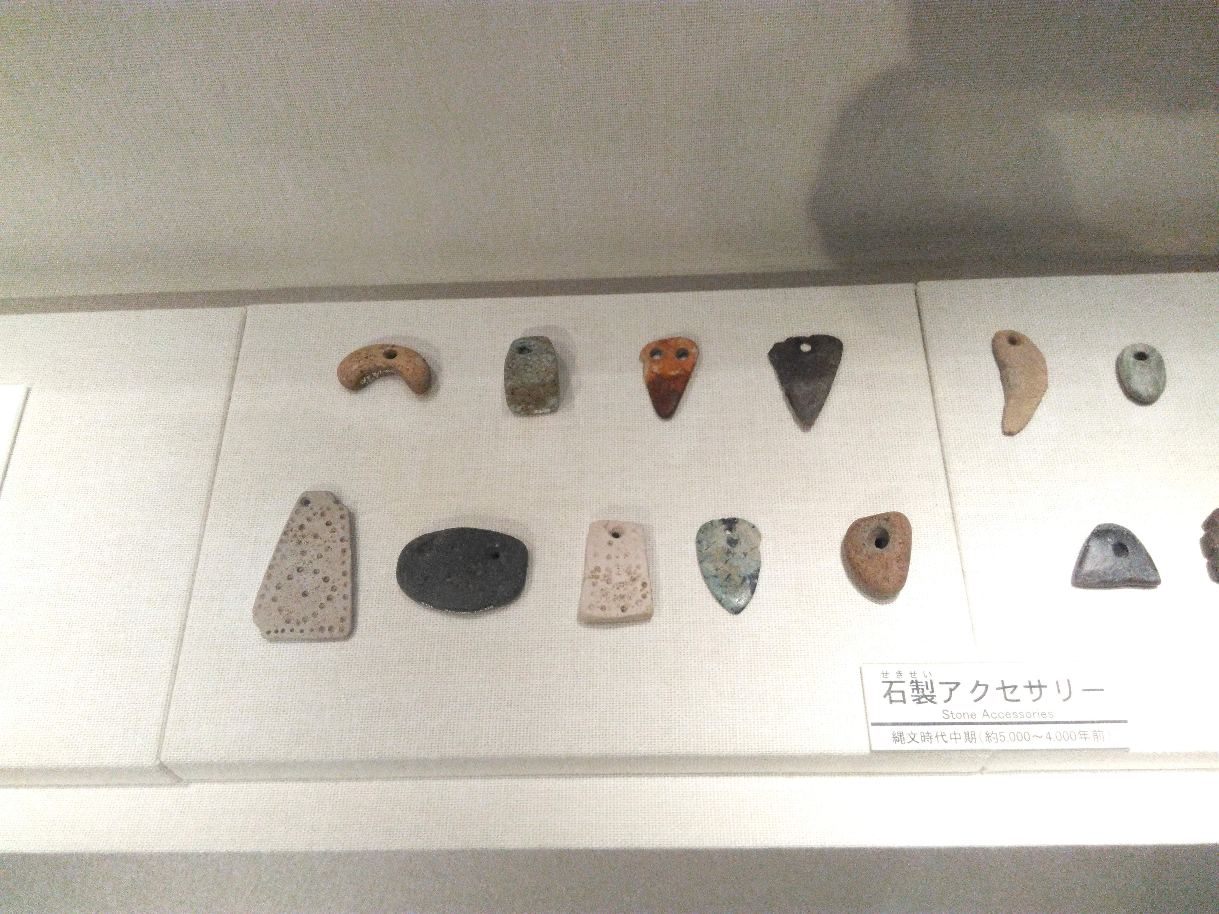 Stone pendants at Sannai Maruyama